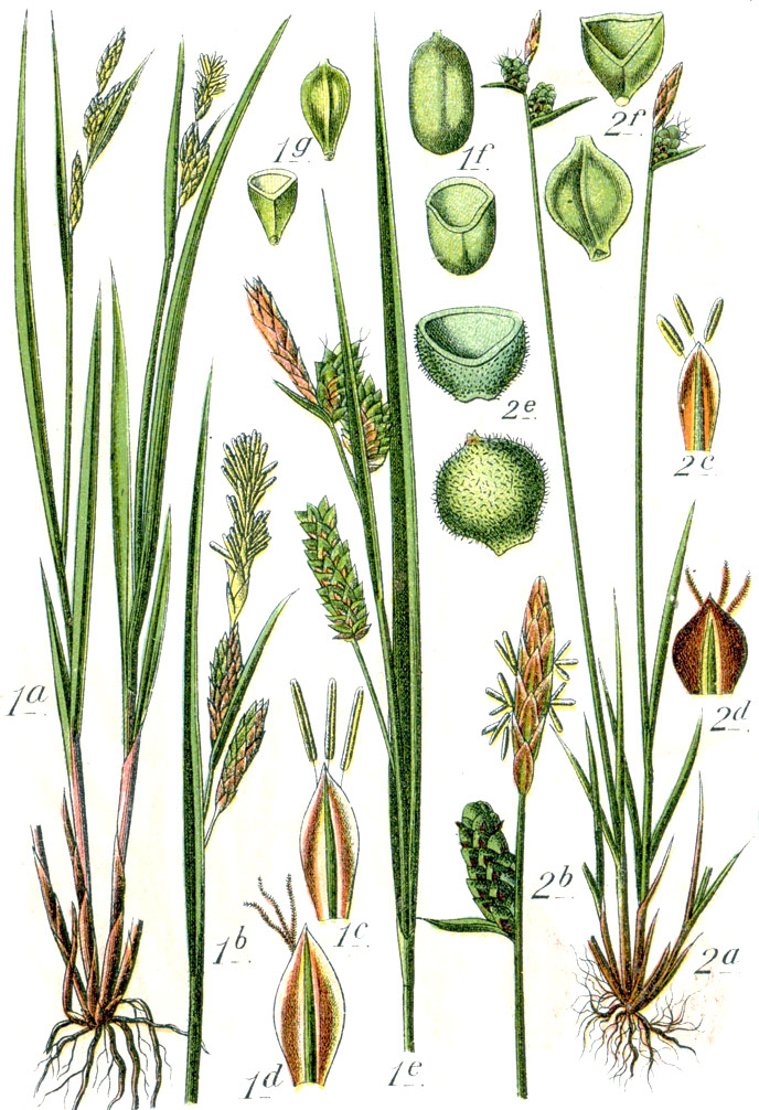 1. Carex pallescens L. 2. Carex filiformis L., syn. Carex tomentosa L. Original Caption 1. Bleiche Segge, Carex pallescens 2. Filz-Segge, C. tomentosa